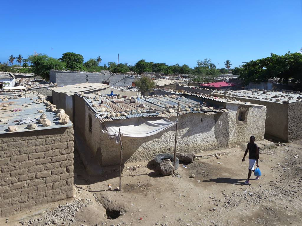 Ramshackle bairros like this one in Benguela surround most towns and cities in Angola.